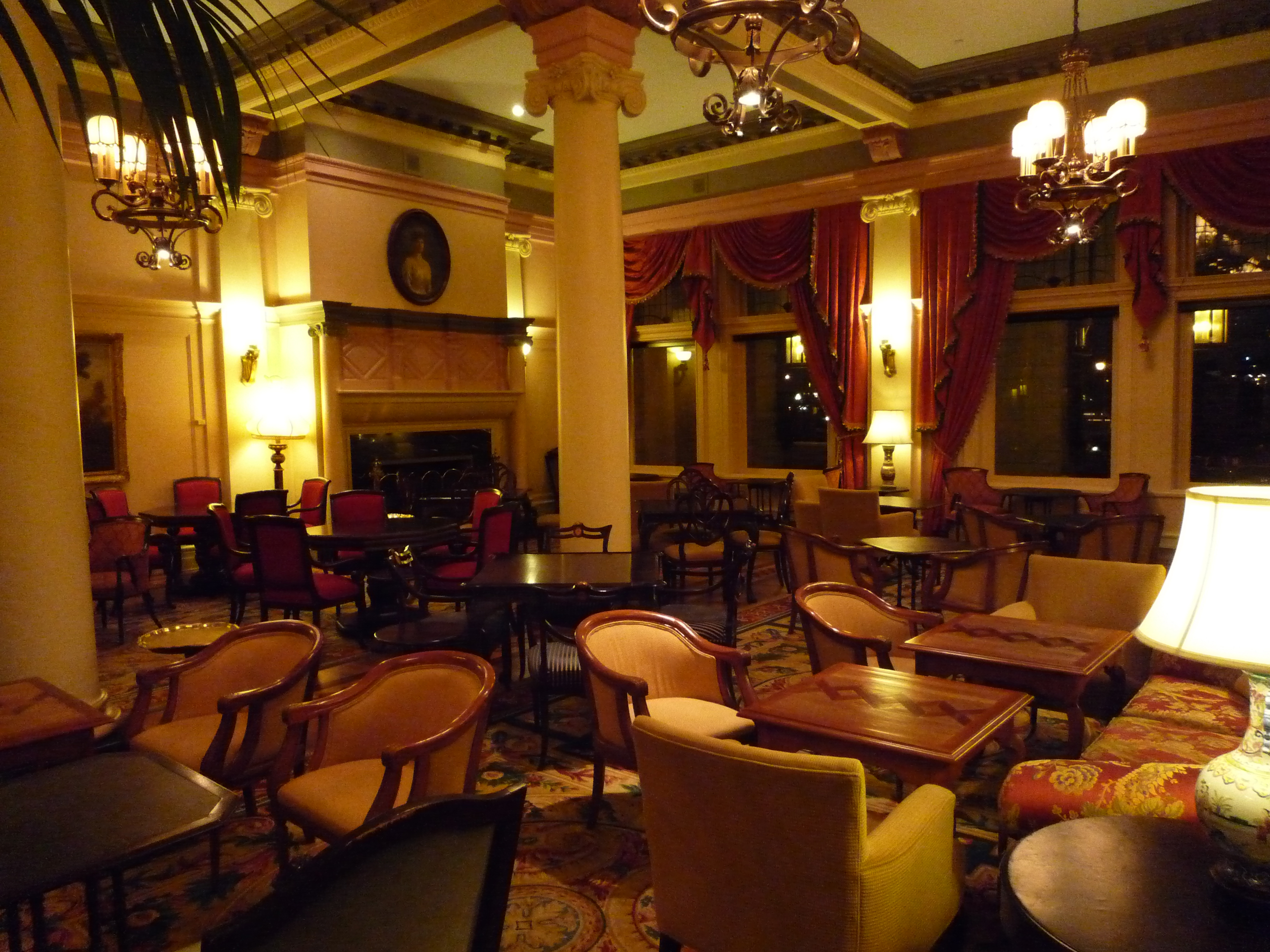 The Tea Lobby, which hosts the long-standing Afternoon Tea at The Fairmont Empress, Victoria, British Columbia, Canada.